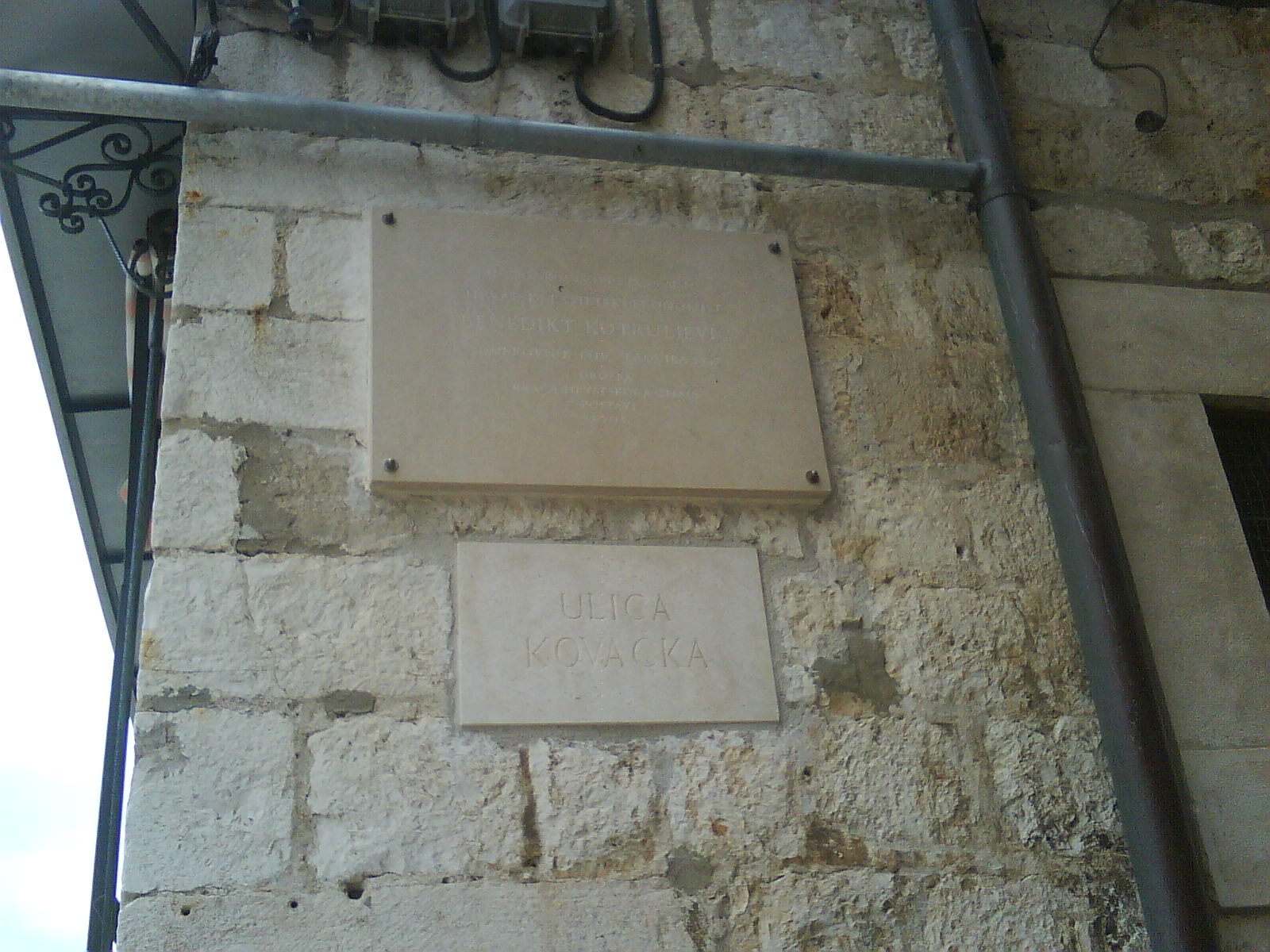 Benedetto Cotrugli memorial badge on the house where he was born, in Dubrovnik, Croatia.